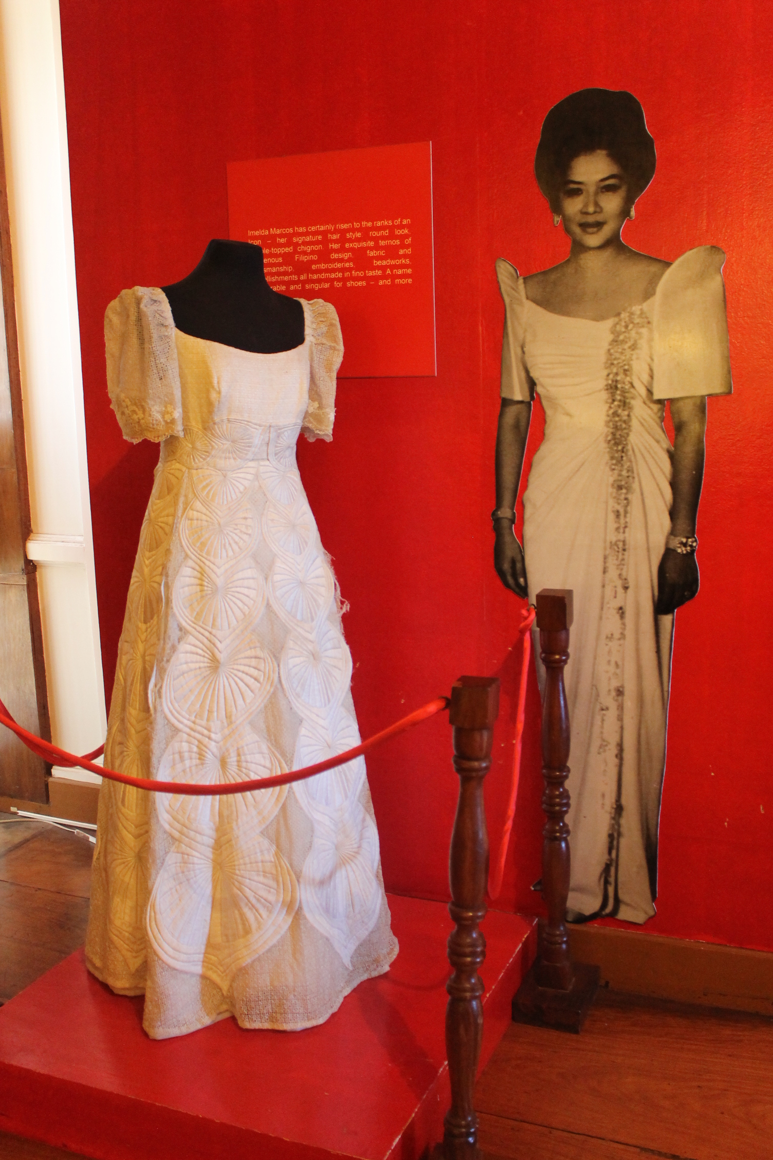 Philippine terno exhibit at Malacanang of the North